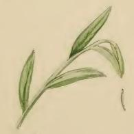 Stainton’s Natural History of the Tineina (1855–1873): Mirificarma lentiginosella a sprig of Genista tinctoria eaten by larva